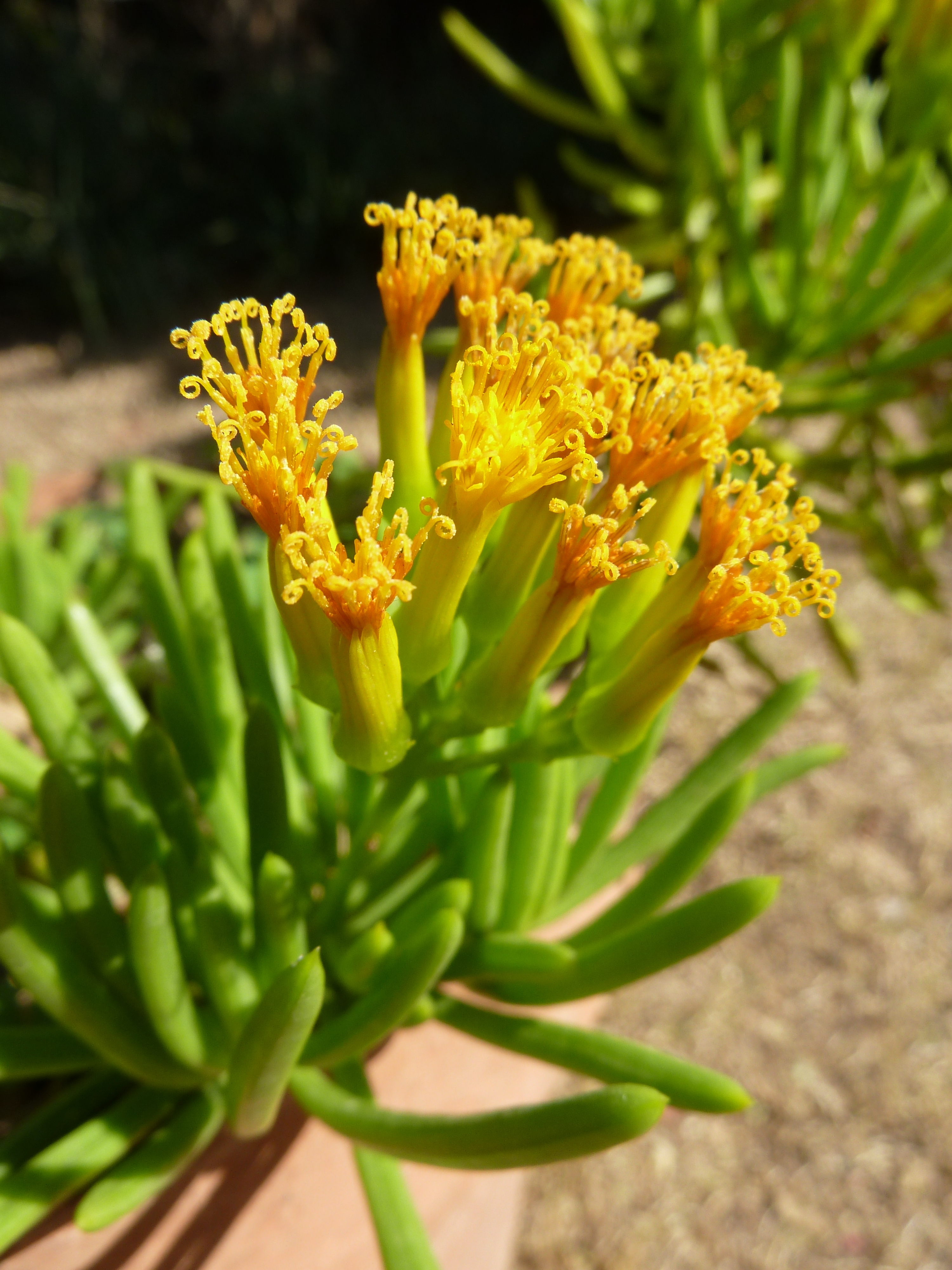 Winter flower heads of the Succulent bush senecio